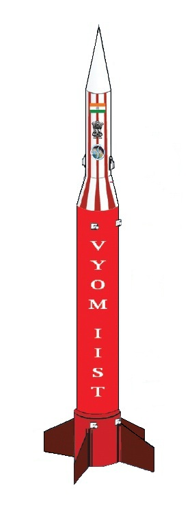 Vyom rocket shape.